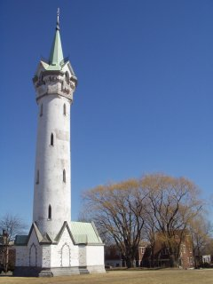 Photograph of the Fort Hill Tower in Roxbury, Massachusetts.